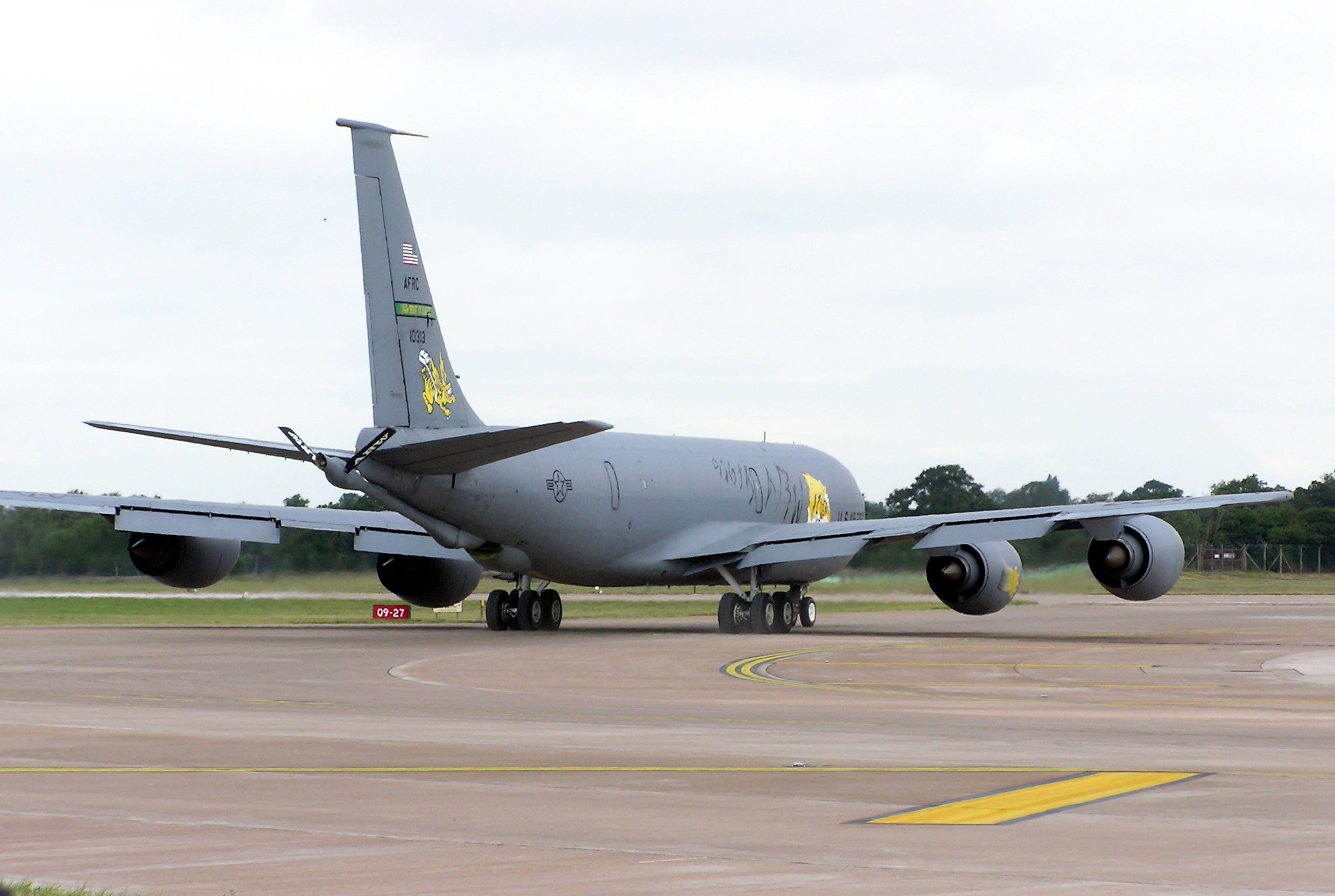 USAF Reserve Command KC-135R tanker from the 77th ARS, Seymour Johnson AFB, taxying for take off at the Royal International Air Tattoo, Fairford, Gloucestershire, England. Photographed by Adrian Pingstone in July 2005 and released to the public domain.